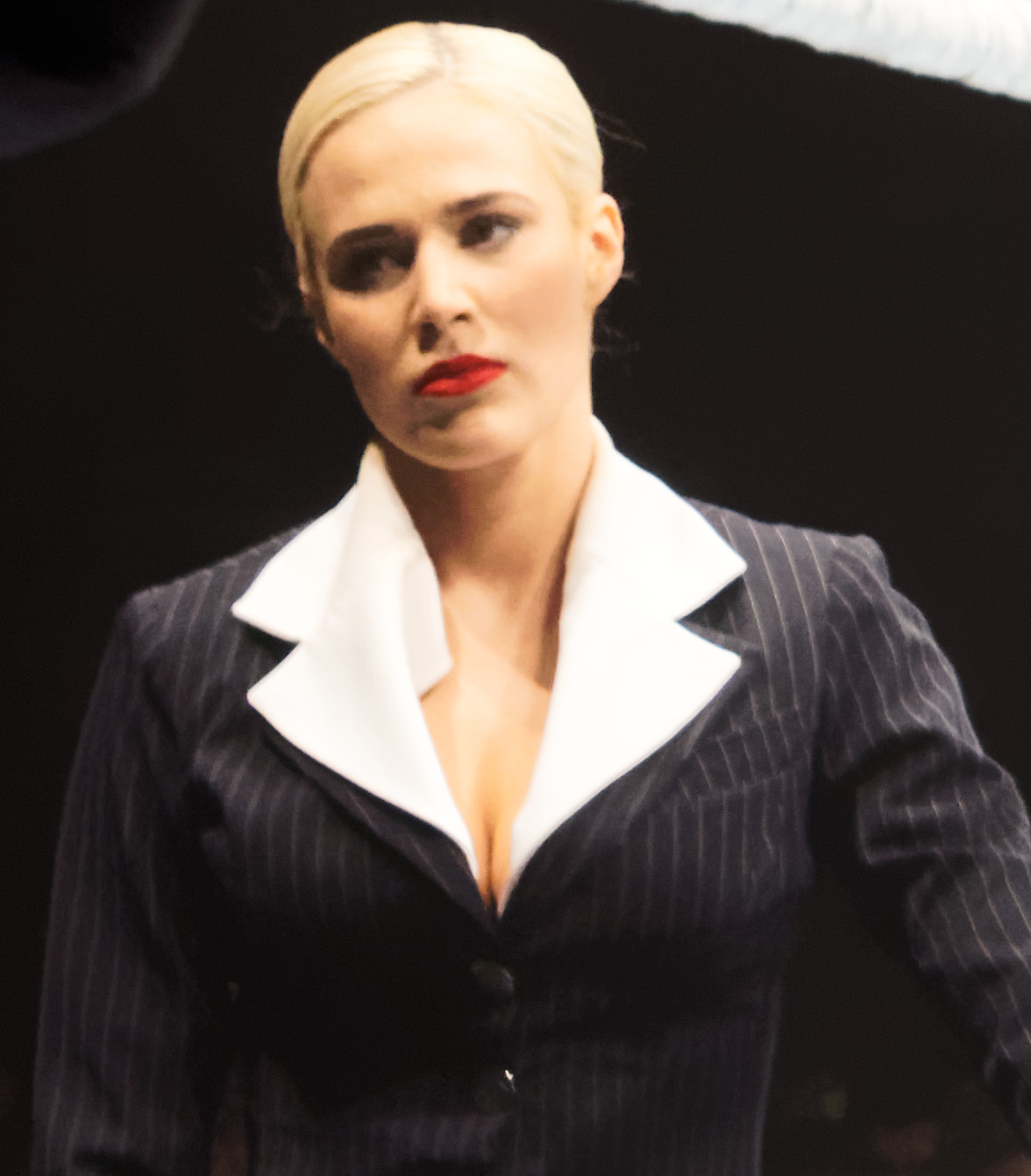 Lana during a live even in 2015.